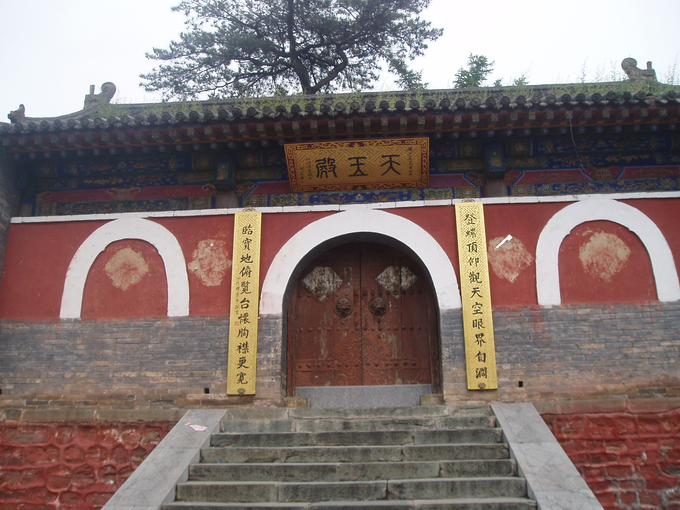 The Hall of Lokapala of Dailuoding Temple in Wutaishan.